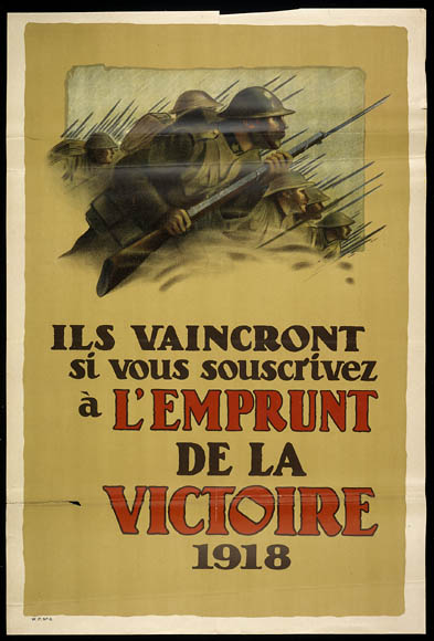 (They win if you buy Victory Bonds, 1918, Canada)